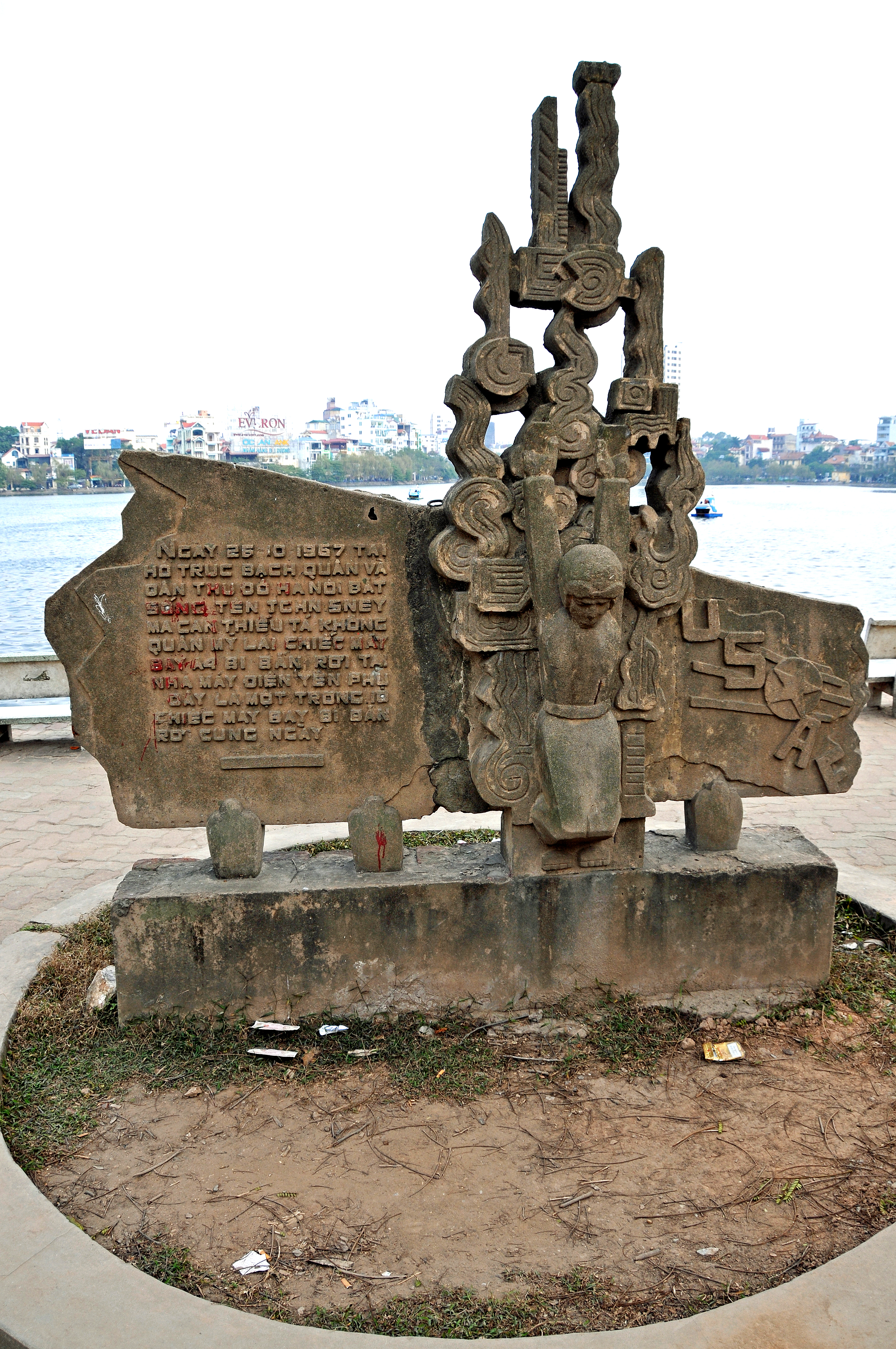 PLEASE, no multi invitations (none is better) in your comments. Thanks. On the bank of True Bach Lake a memorial marks the shooting down of a USA pilot, now Senator John McCain, on 26 October 1967 while he was bombing the Yen Phu power plant. Hanoi, Vietnam